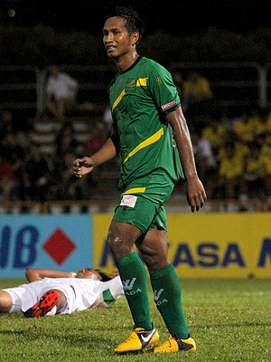 Shahril Alias in action for Woodlands Wellington against Albirex Niigata (S) in a friendly match at Woodlands Stadium on 19 January 2013.